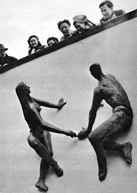 Original installation at the 1951 Festival of Britain the sunbathers